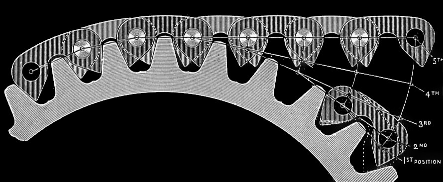 Fig. 108 Renold's silent chain, chain and wheel engagement. Engagement between chain and wheel, using Renold's silent chain. Scans from 'The Book of the Motor Car', Rankin Kennedy C.E., 1912 See other images from this source in Scans from 'The Book of the Motor Car'